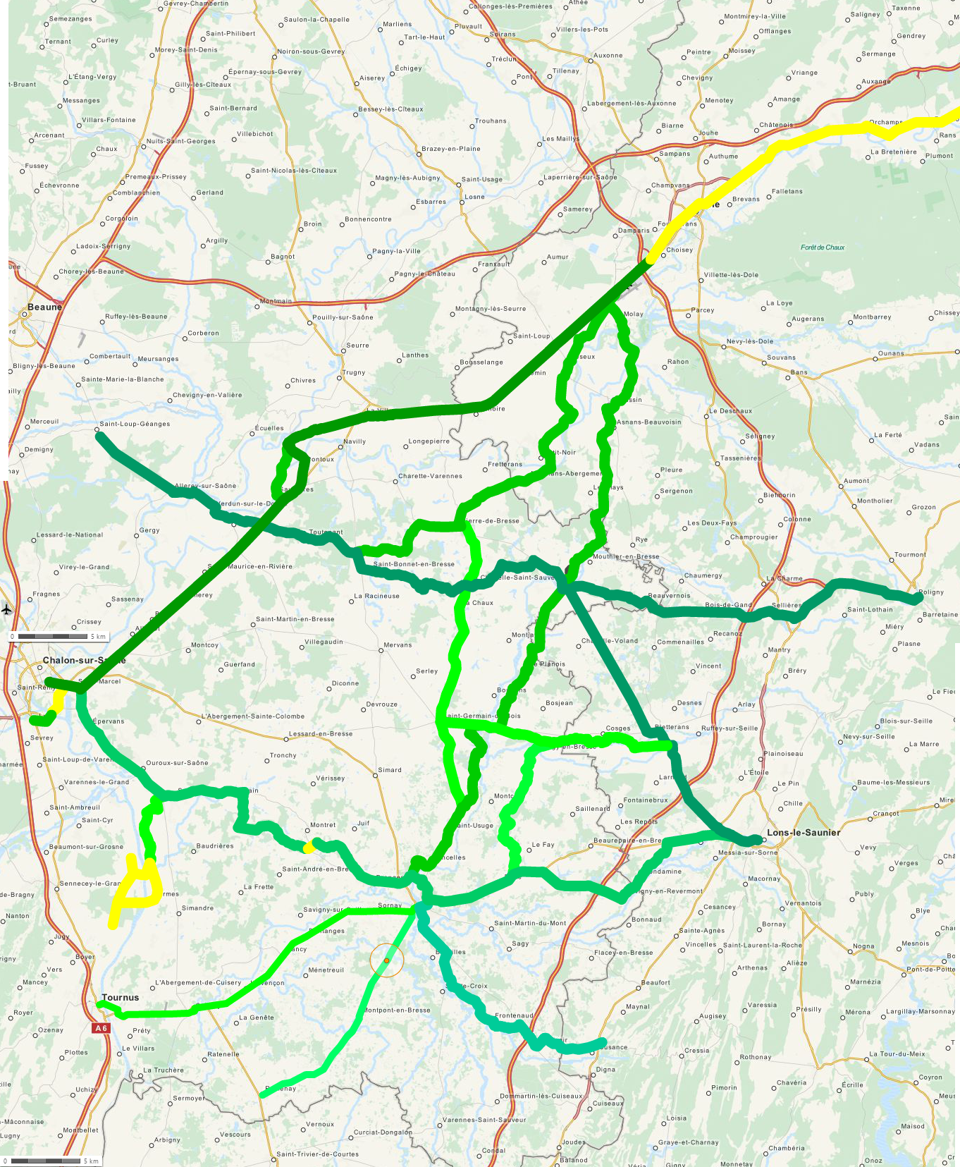 Karte der Römerstraßen in der Bresse Carte des voies romaines en Bresse This map may be incomplete, and may contain errors. Don't rely solely on it for navigation.